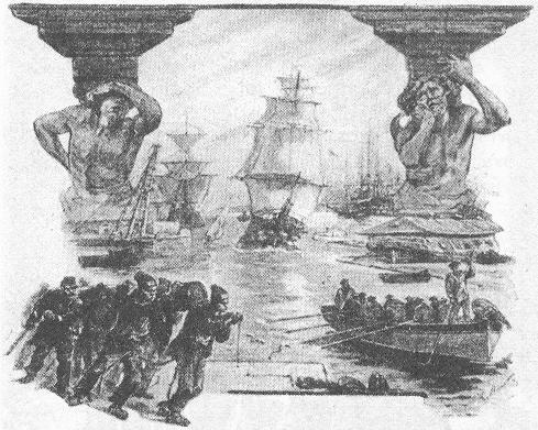 Ilustration by G. Roux to Jules Verne story